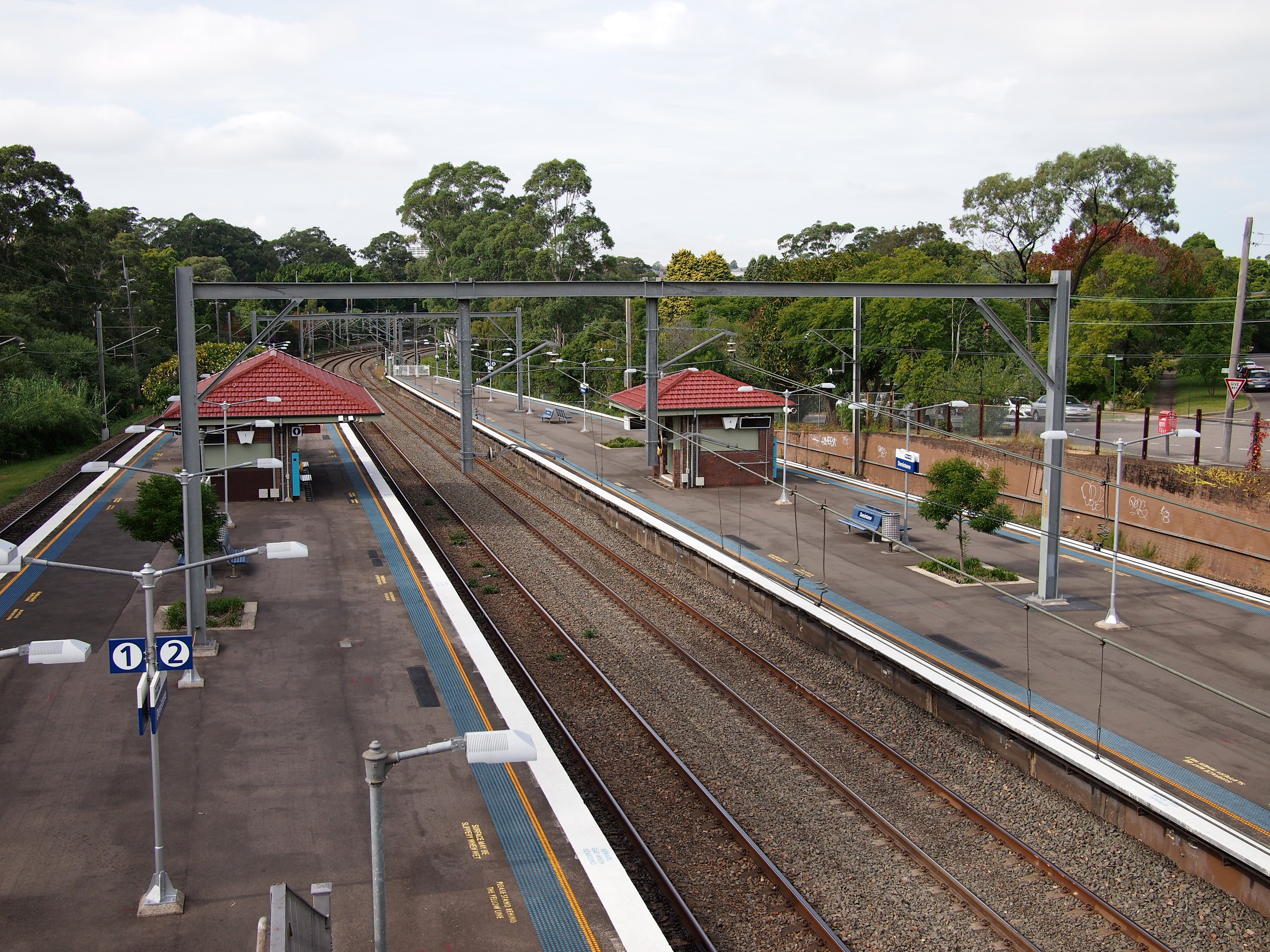 View to the south along the platforms at Denistone Station